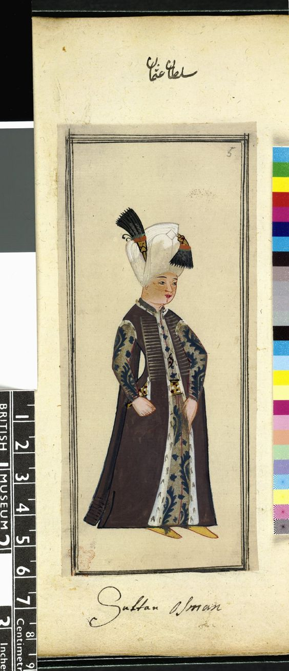 Osman II,1620. Photo credit British Museum